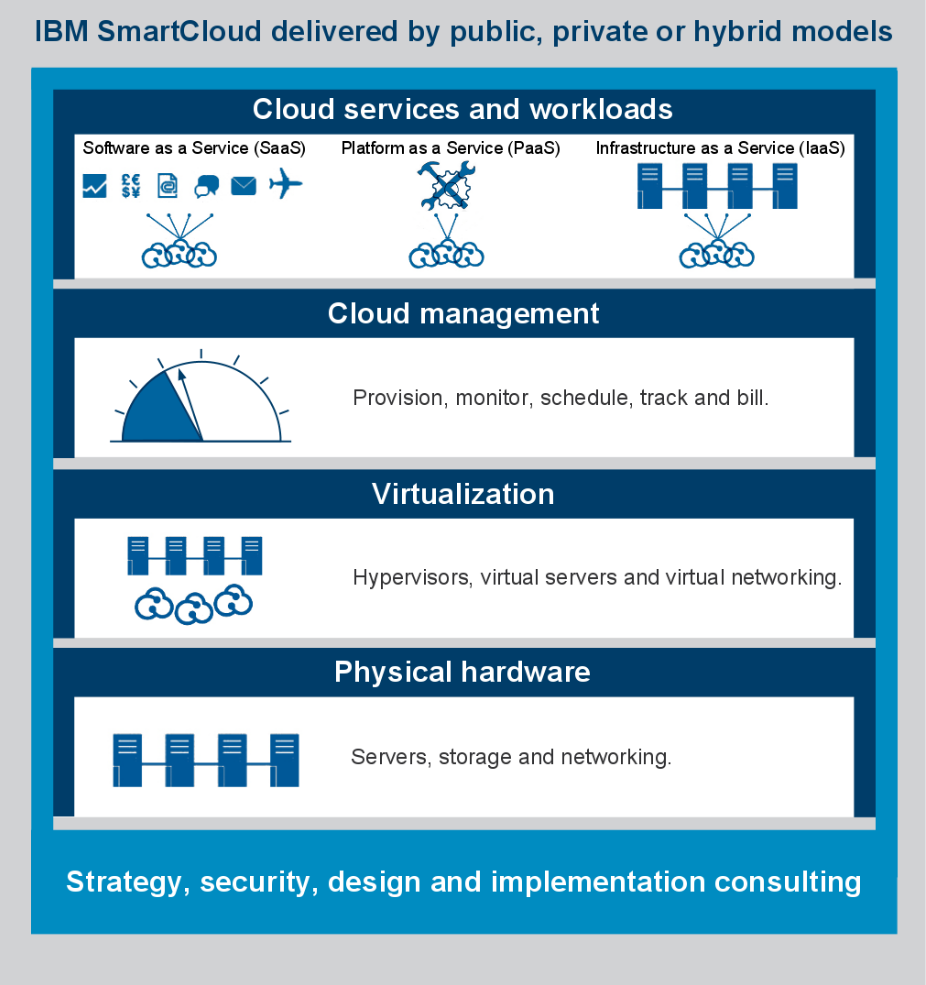 Taxonomy of IBM SmartCloud